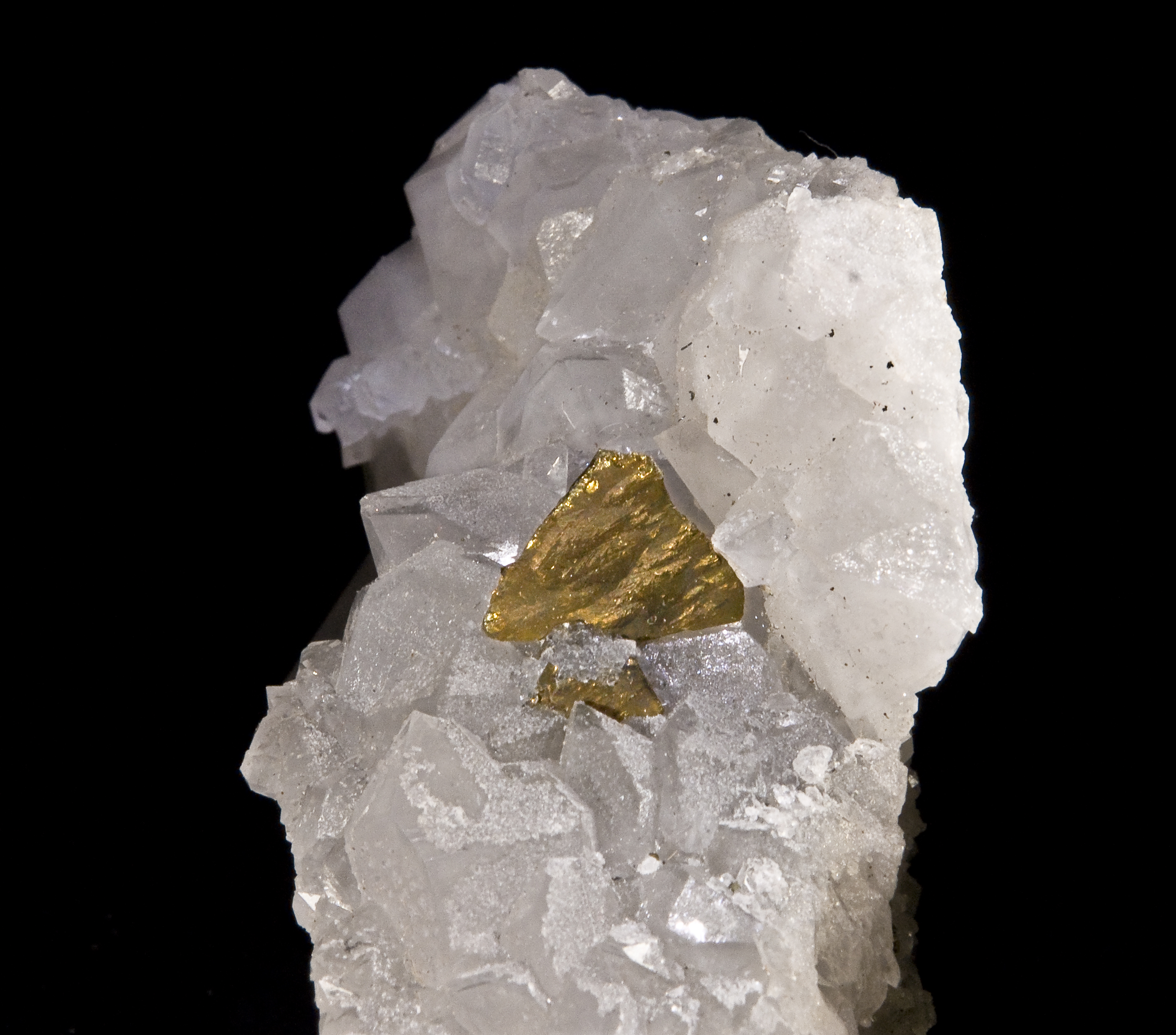 Chalcopyrite with quartz - Mont-Roc Mine, Villefranche d'Albigeois, Tarn, Midi-Pyrénées, France (5x3; XX1.2cm)